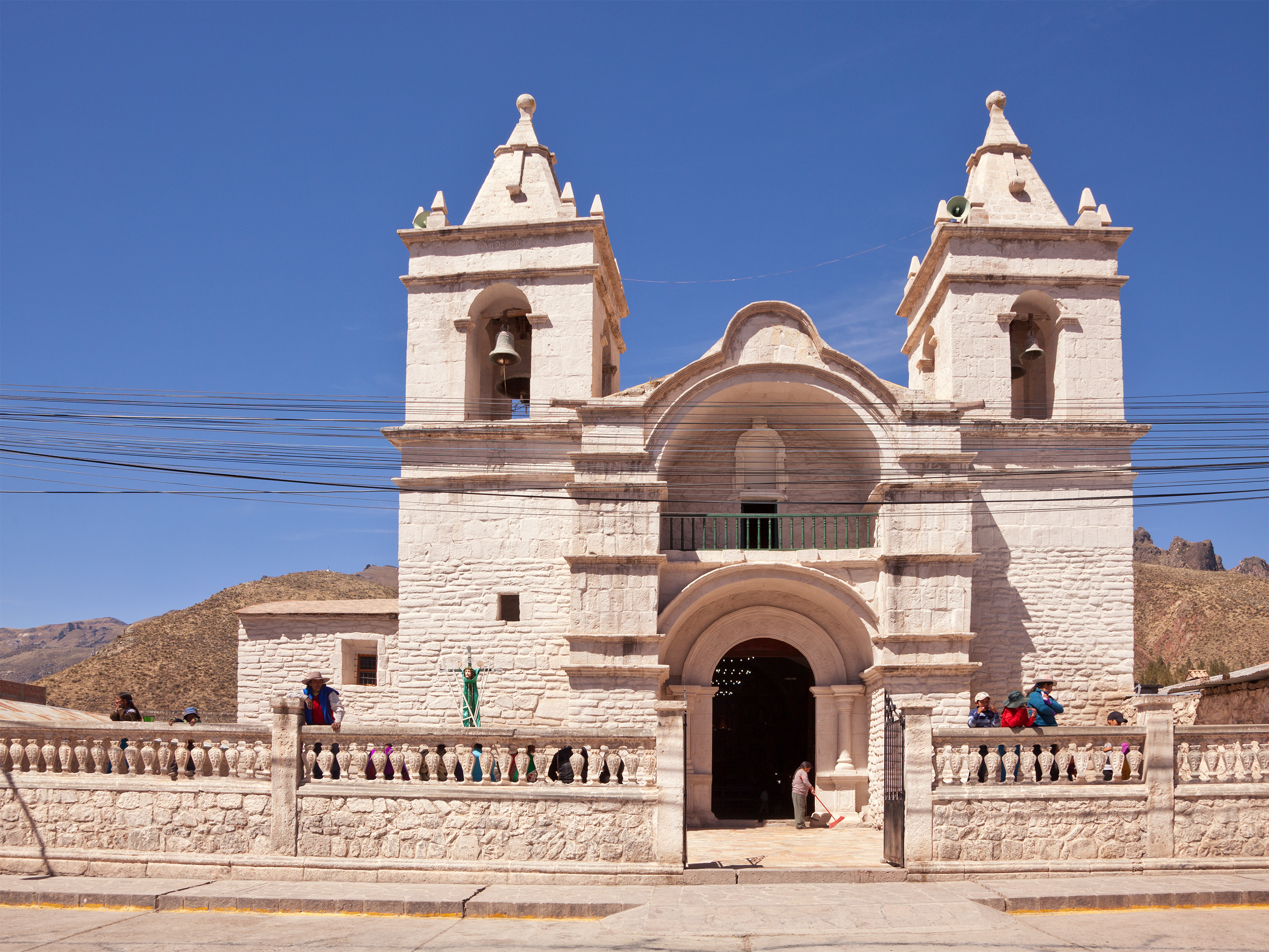 Chivay, Peru, church